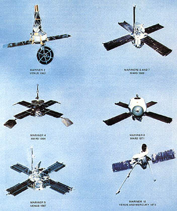 Mariner program probes overview.